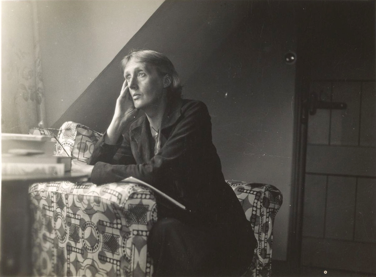 Virginia Woolf sitting in an armchair at Monk's House.